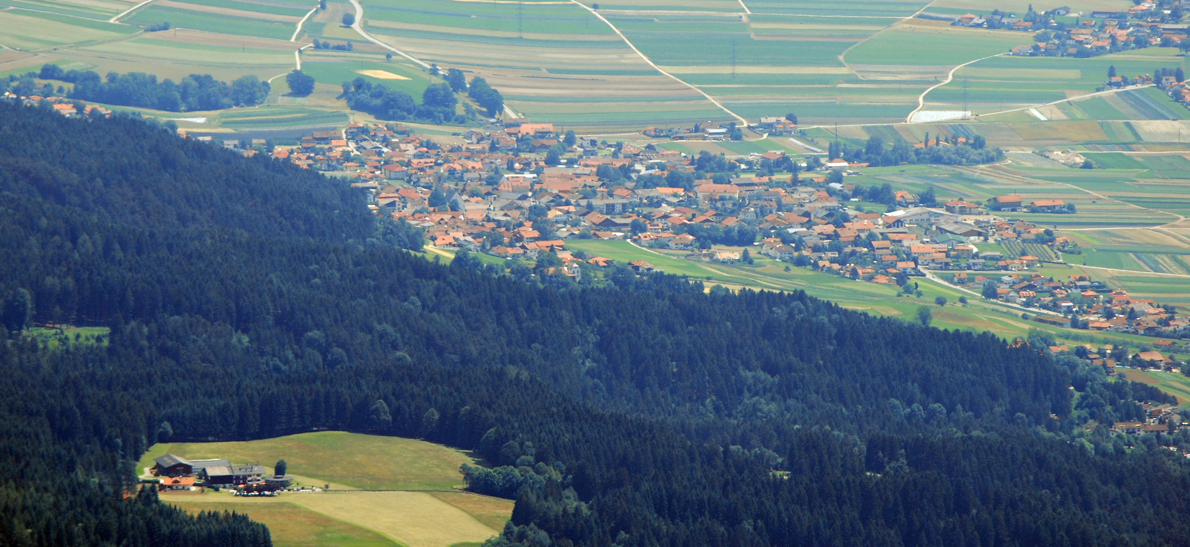 Thaur from NW (Brandjoch)